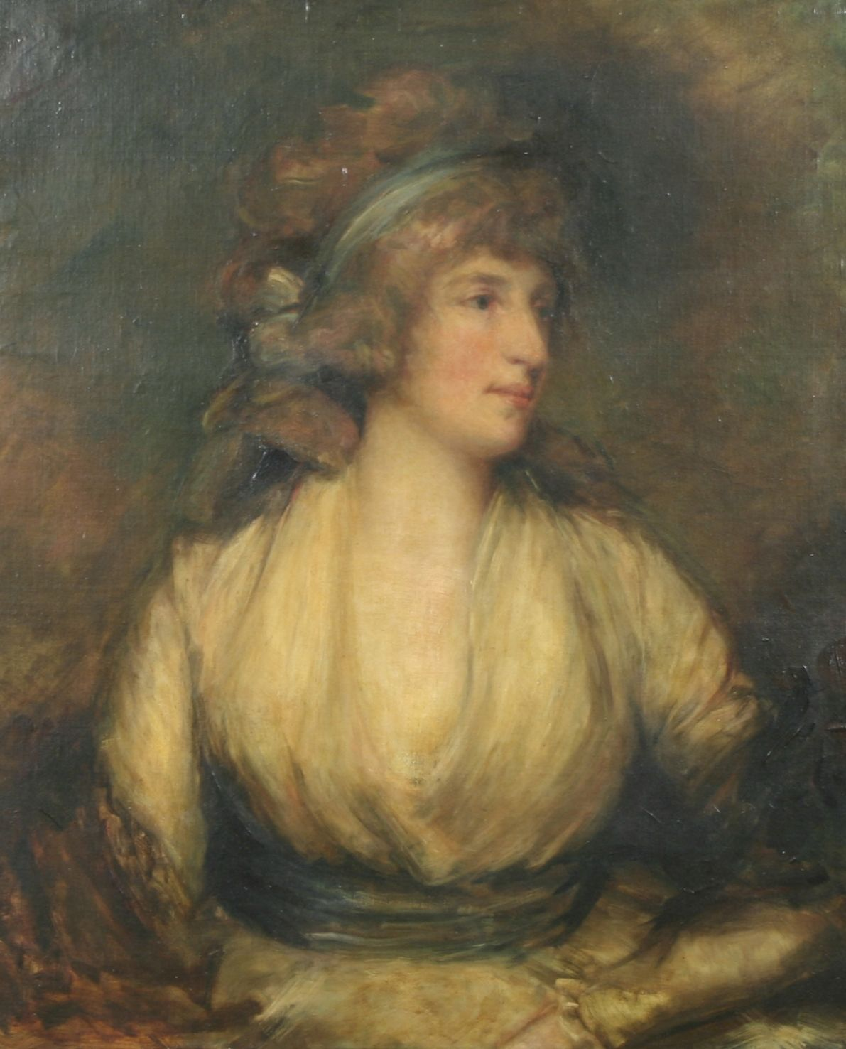 Portrait of Mrs Maria Fitzherbert (1756-1837), wife of George IV